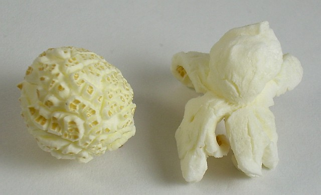 Two flakes of popcorn, showing characteristic mushroom and butterfly flake shapes